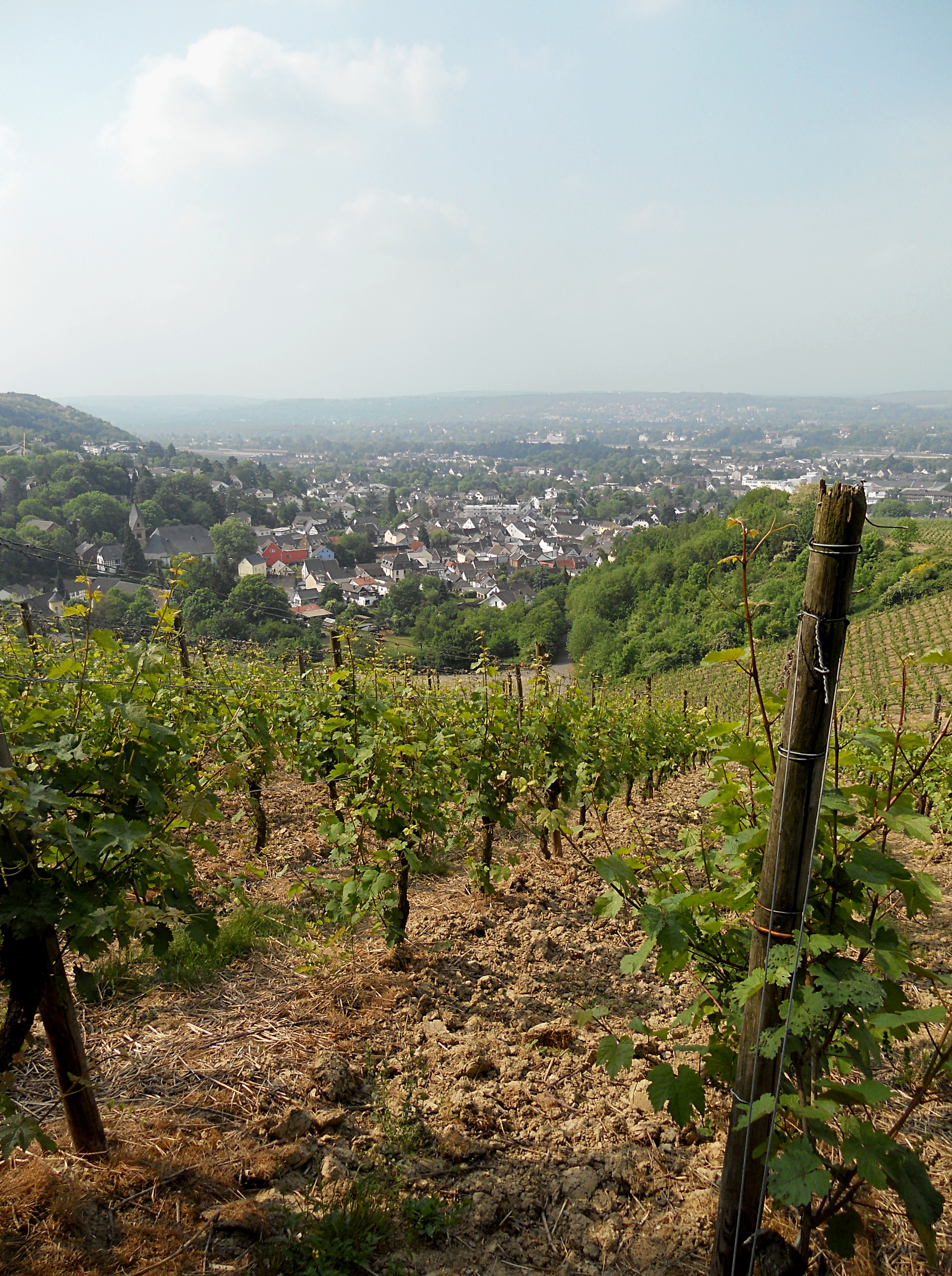 Vinyard near Oberdollendorf. This is the most northern slope used for Viticulture along the river Rhine in Germany.